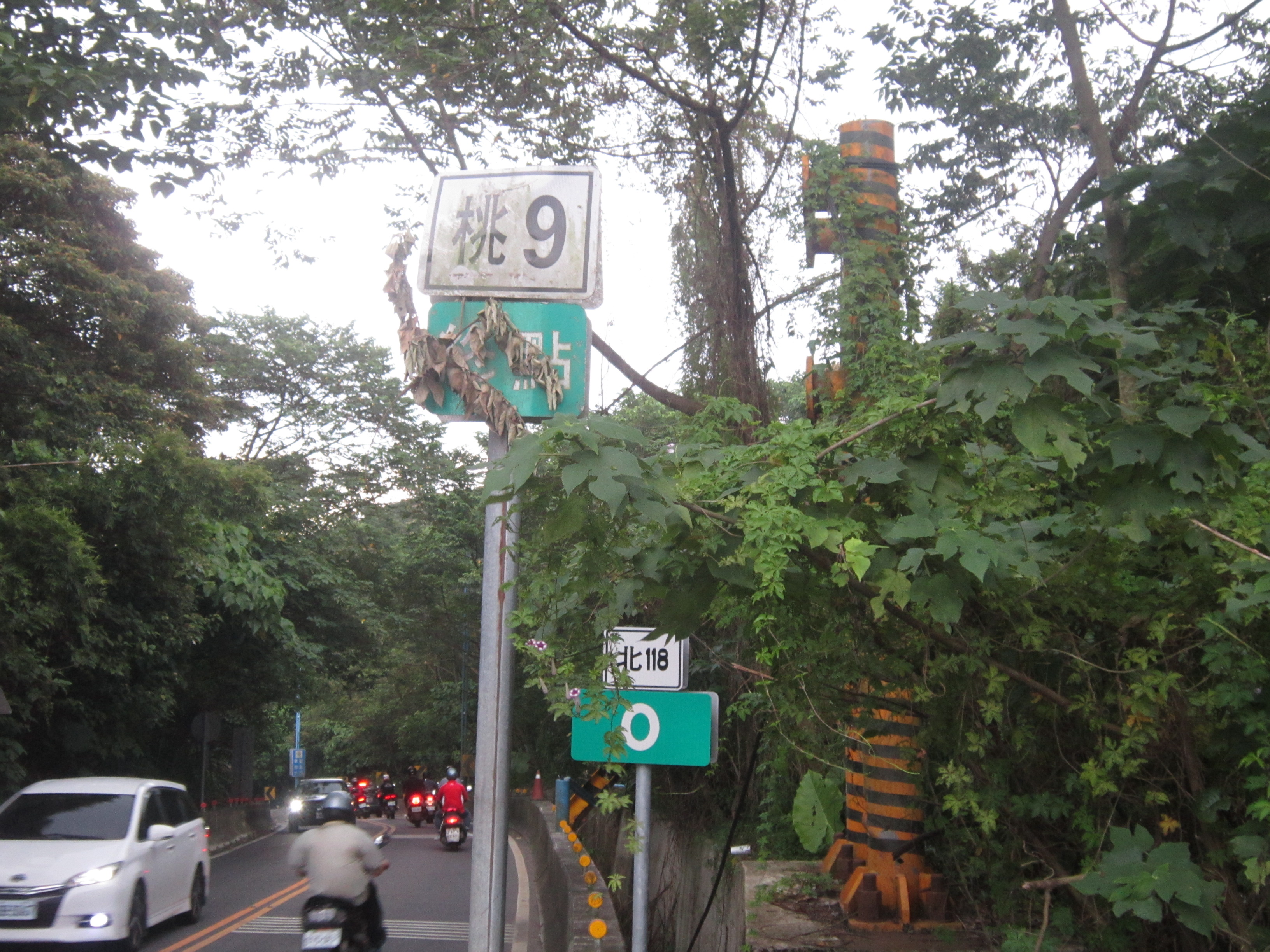 New_Taipei_Line_118